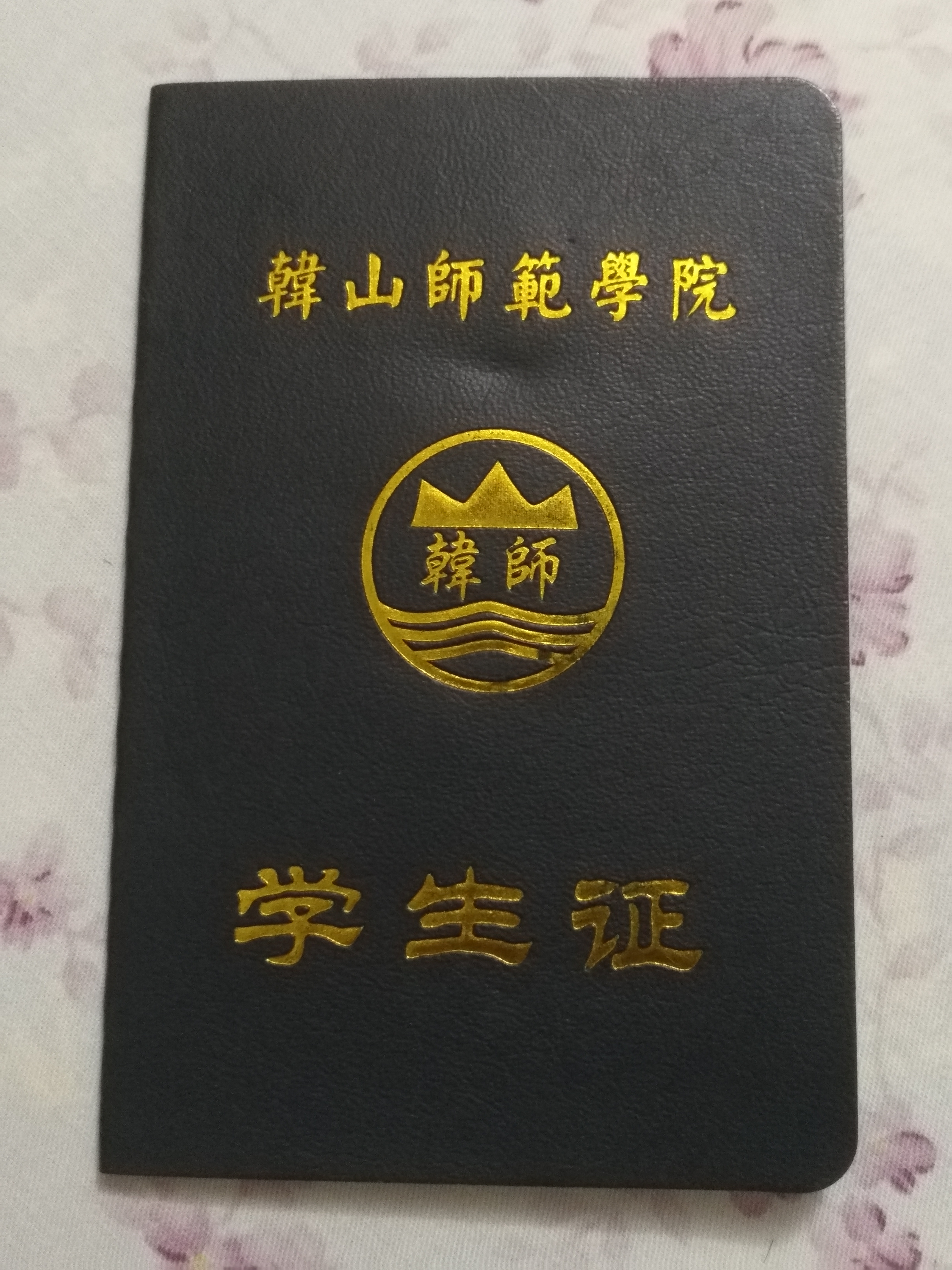 Student ID of the Hanshan Normal University.